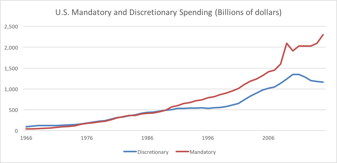 Graph showing U.S. mandatory and discretionary spending levels from 1966 to 2015.